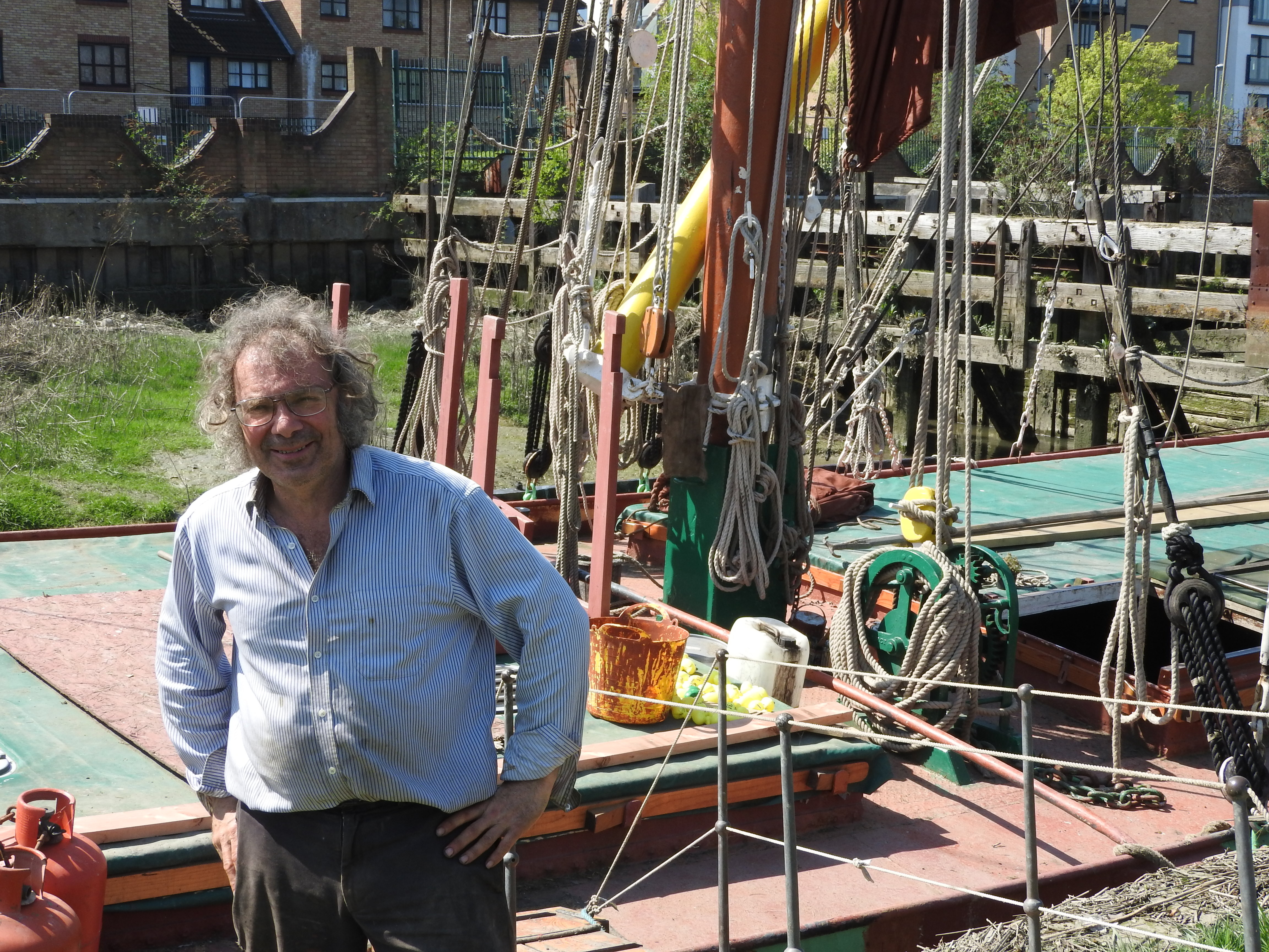 SB Decima on the River Darent, in Dartford.